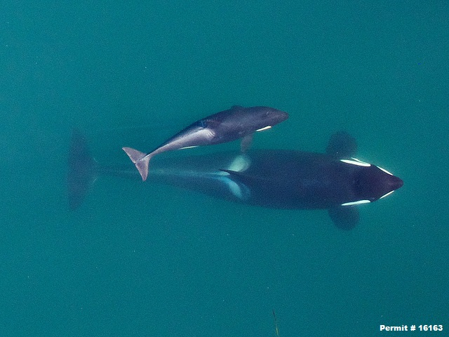 Aerial photograph of killer whale identified as J50, shot during her first year, swimming with J16, her mother, in 2015. Photo credit: John Durban (NOAA Fisheries), Holly Fearnbach (SR3) and Lance Barrett-Lennard (Vancouver Aquarium), taken by an unmanned hexacopter during research authorized under NMFS permit #16163.